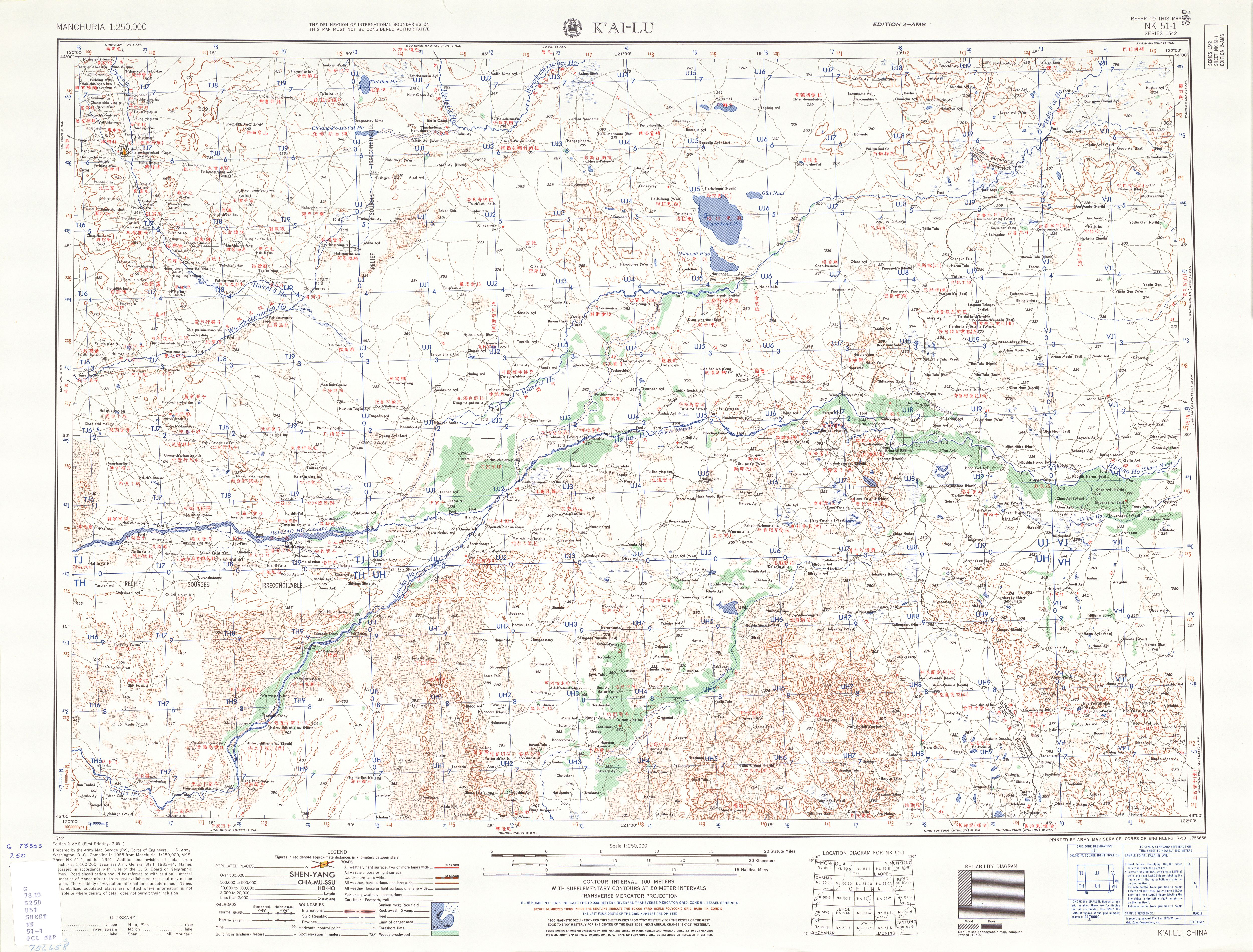 Manchuria AMS Topographic Maps